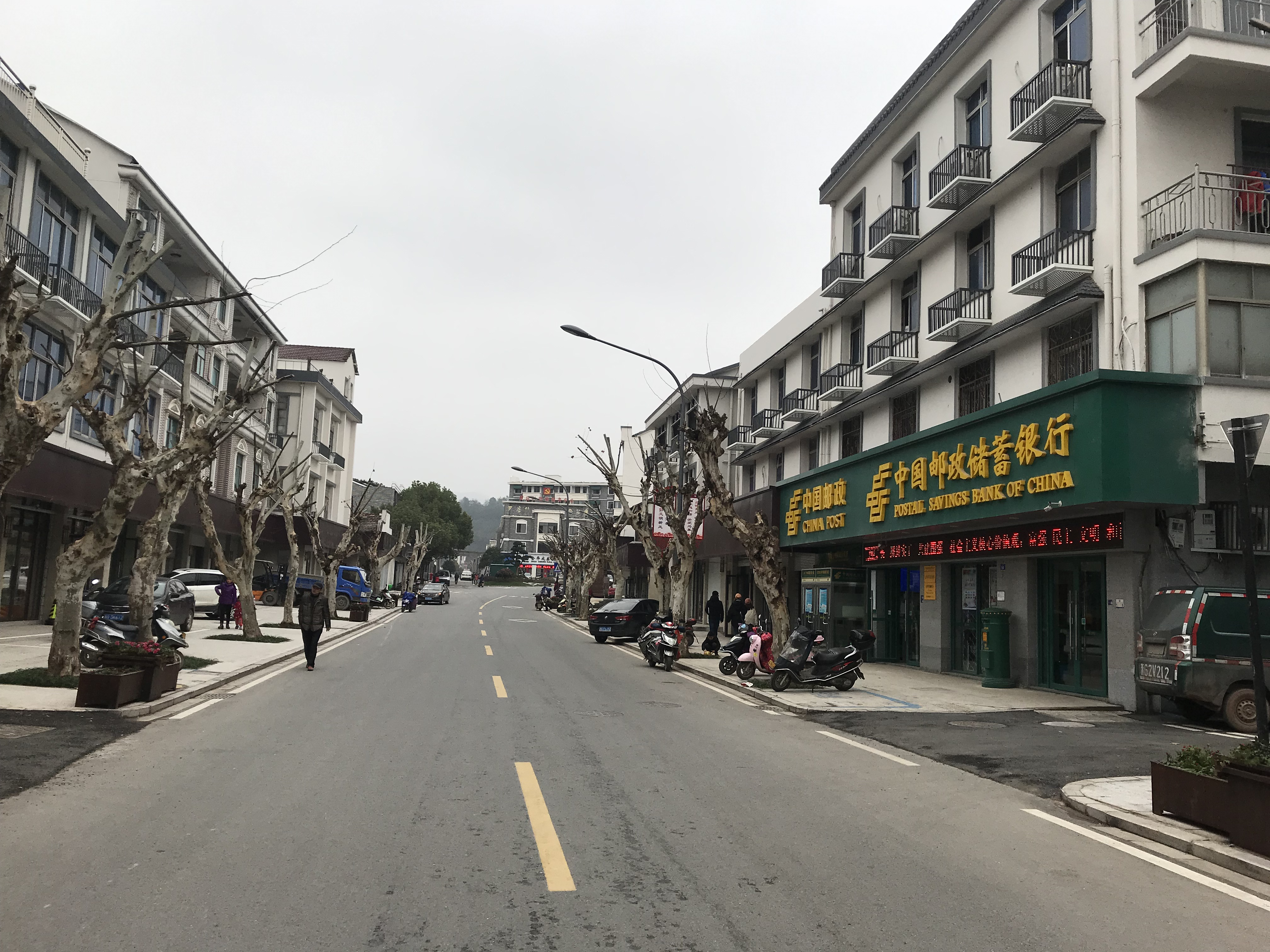 201901 Main Street (Beishan Road) of Luodian, Jinhua